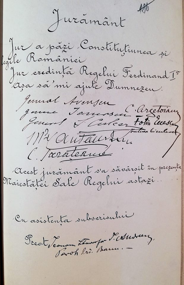 The oath of Romanian Government lead by Alexandru Averescu (1918)